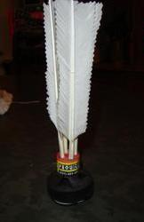 i self have shoted that picture.